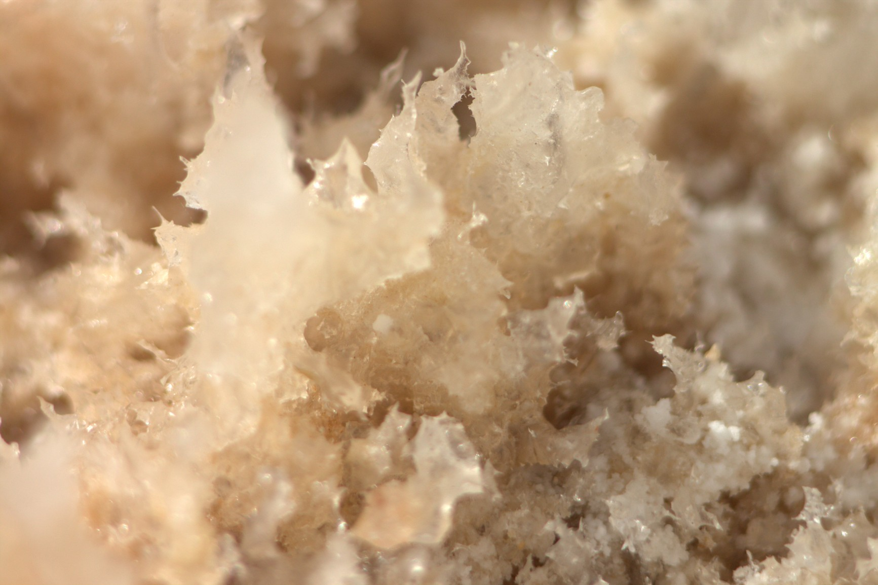 Salt crystals, Dead Sea.